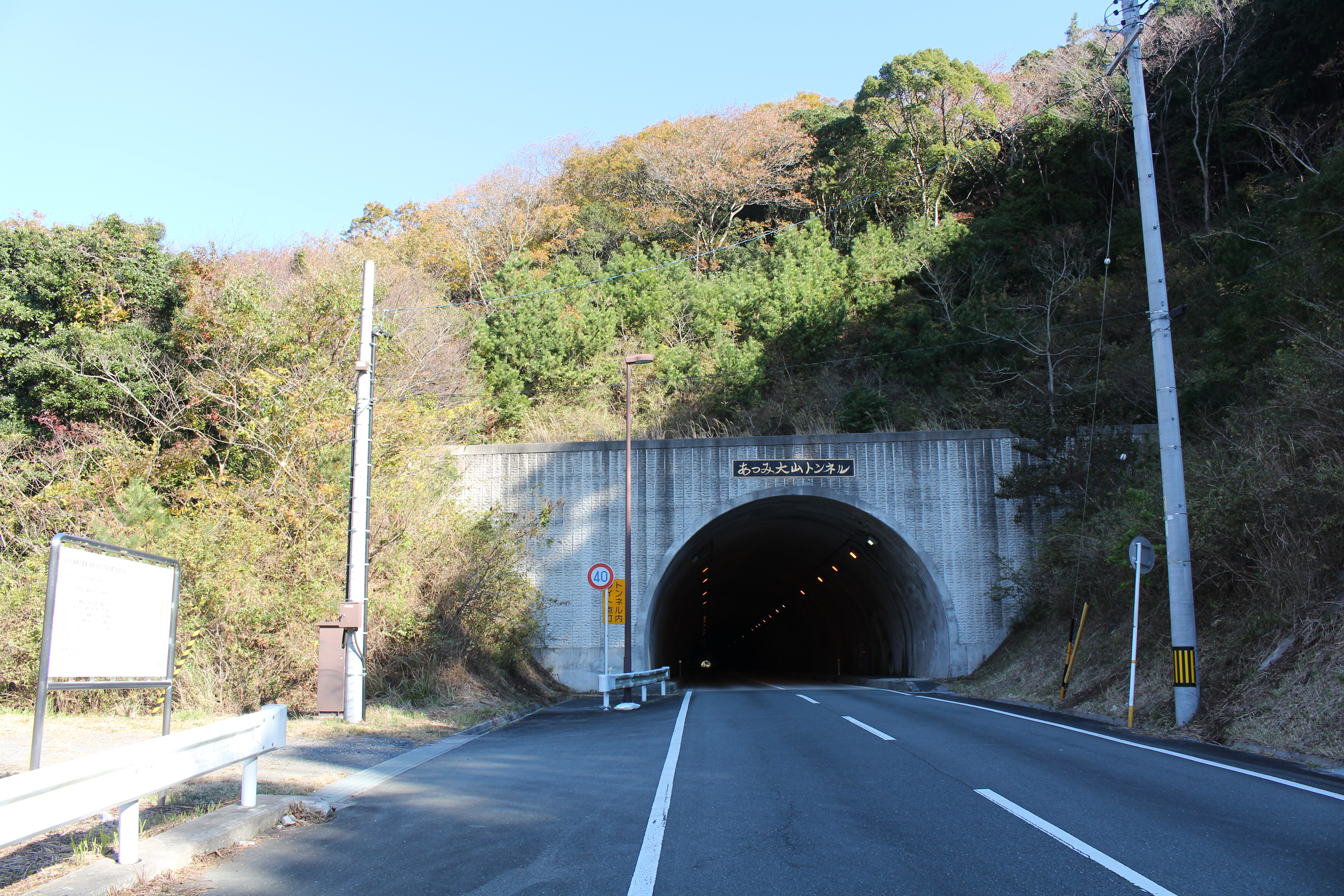 Atsumiōyama Tunnel, in Tahara, Aichi prefecture, Japan.